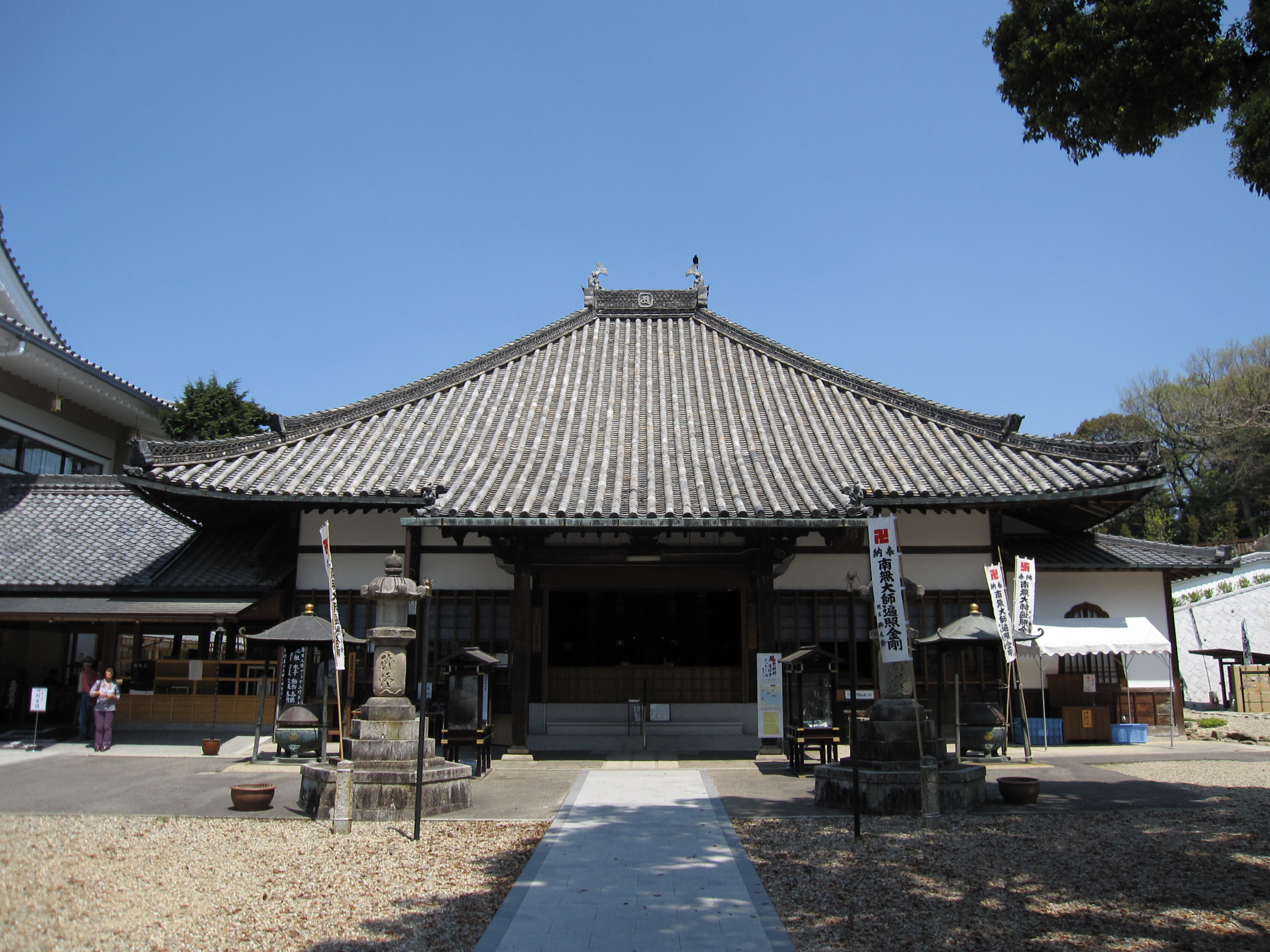 One of the prayer halls of Kōshō-ji temple in Yagoto, Nagoya.